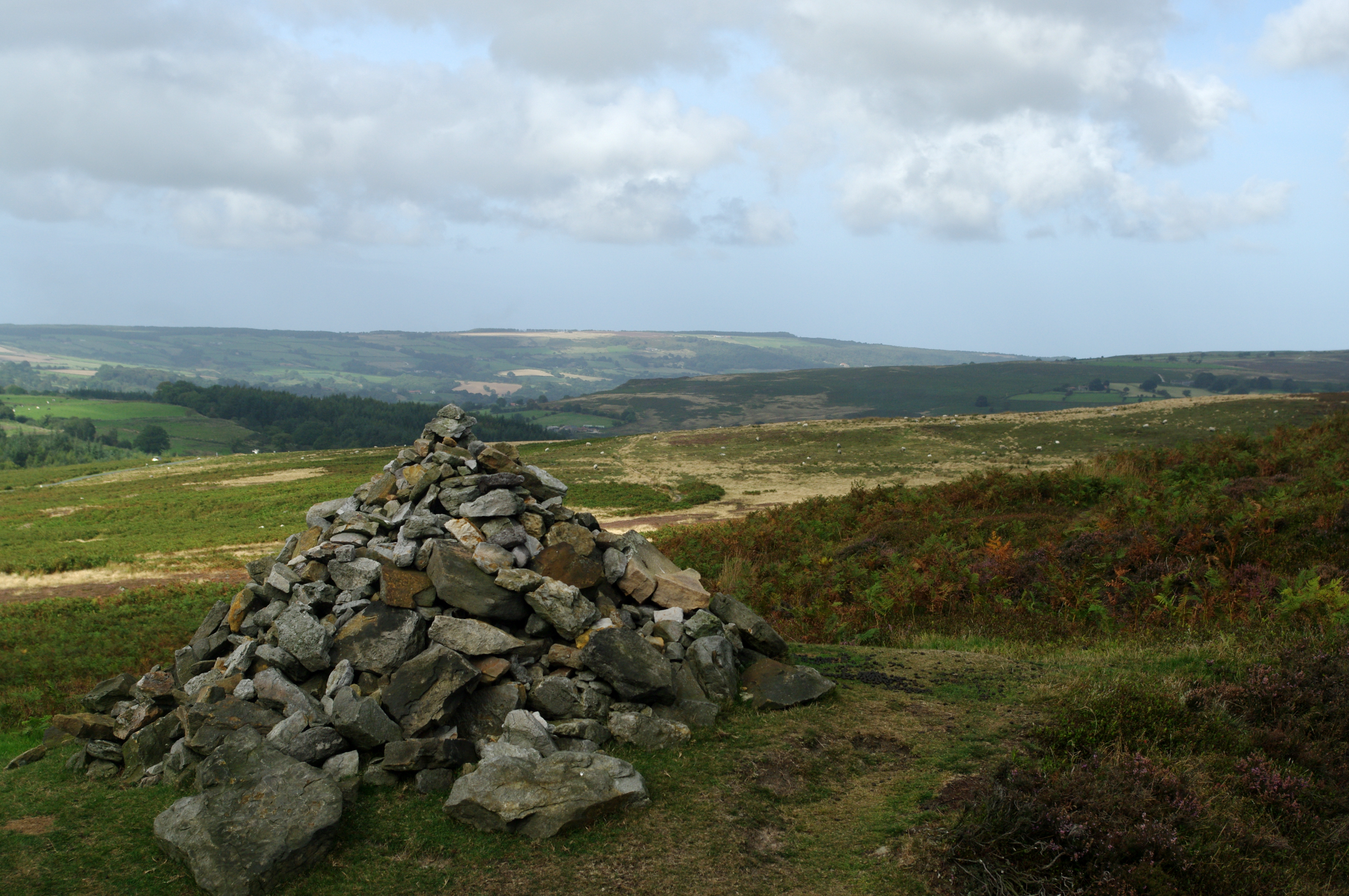 Cairn overlooking Goathland Estate, North York Moors